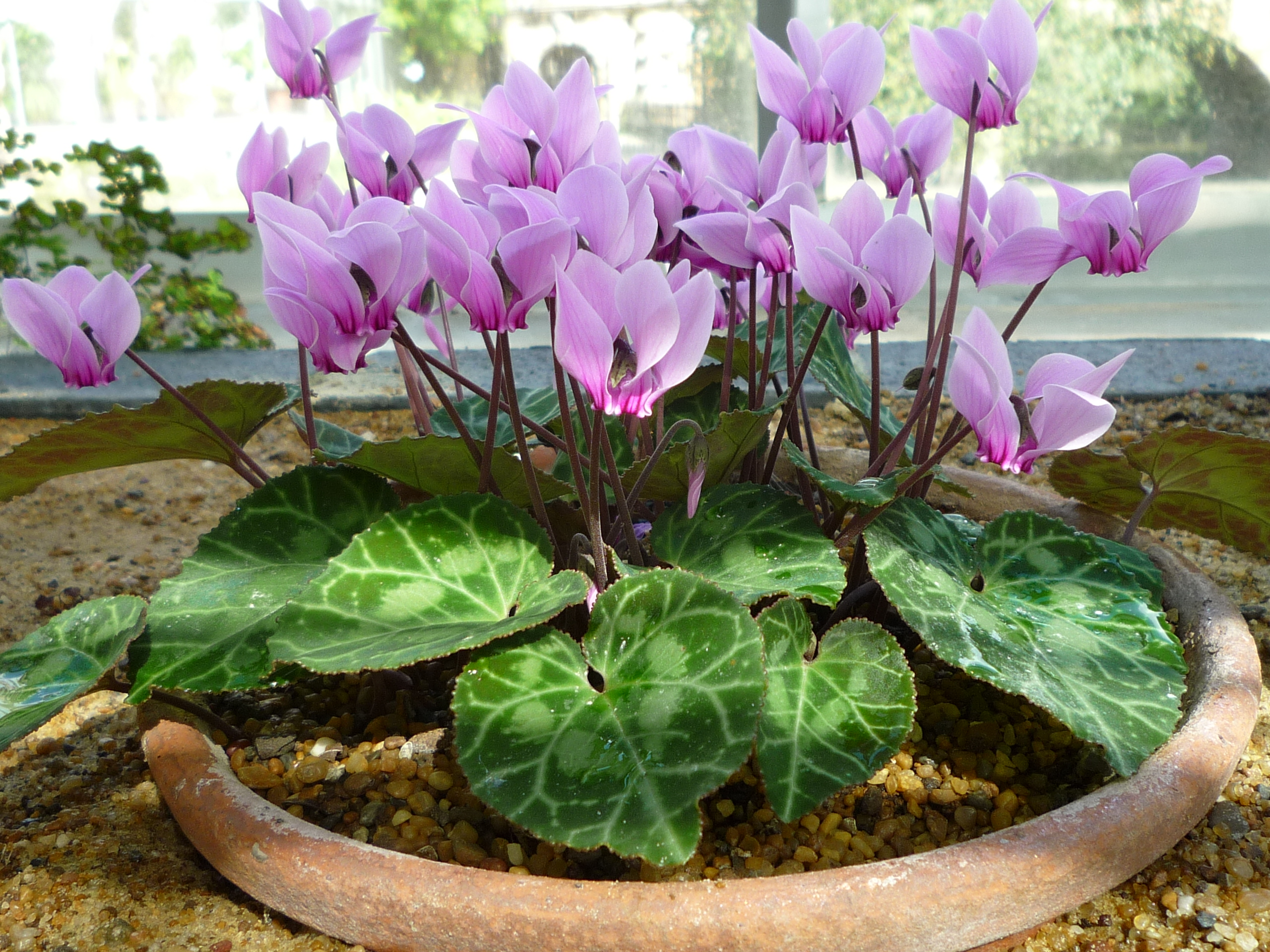 Cyclamen graecum.